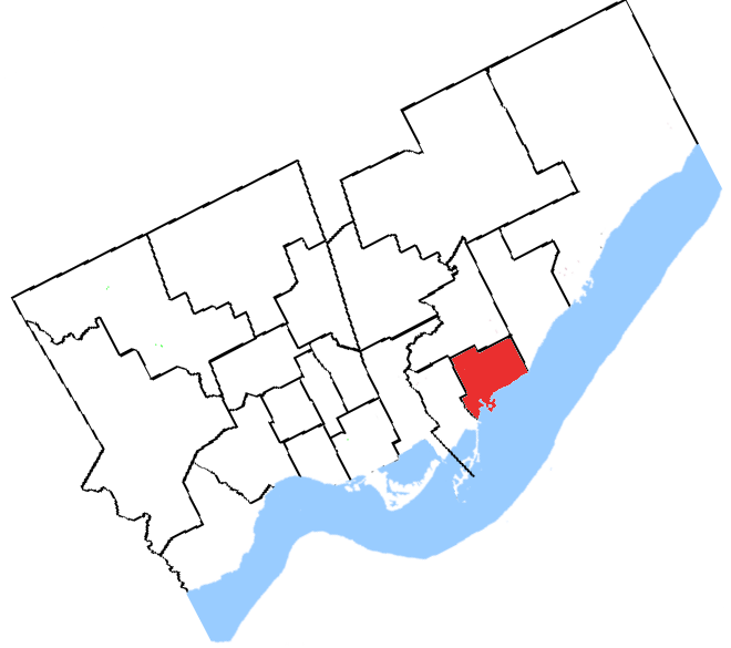 Map of the Greenwood (electoral district) electoral district showing its borders from 1966 to 1976. Created by SimonP.